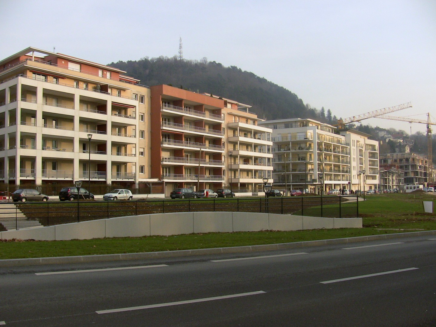 The area of Bregille, in Besançon (Doubs, France).